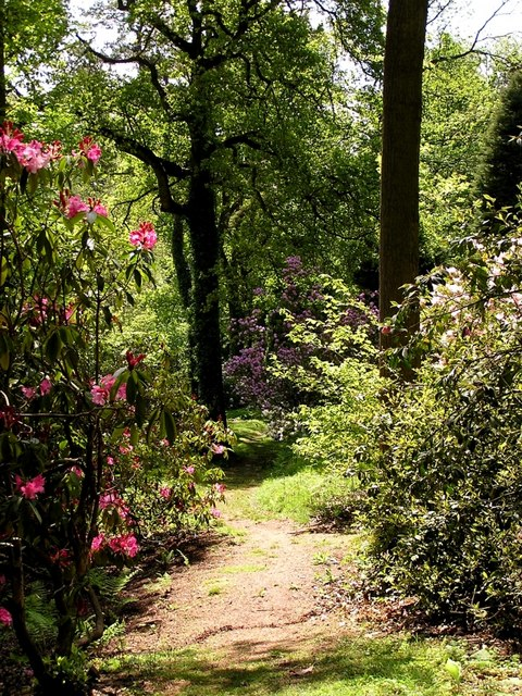 Lydney Park Gardens Lydney Park Gardens is open in spring and has many rhododendrons, azaleas and magnolias.